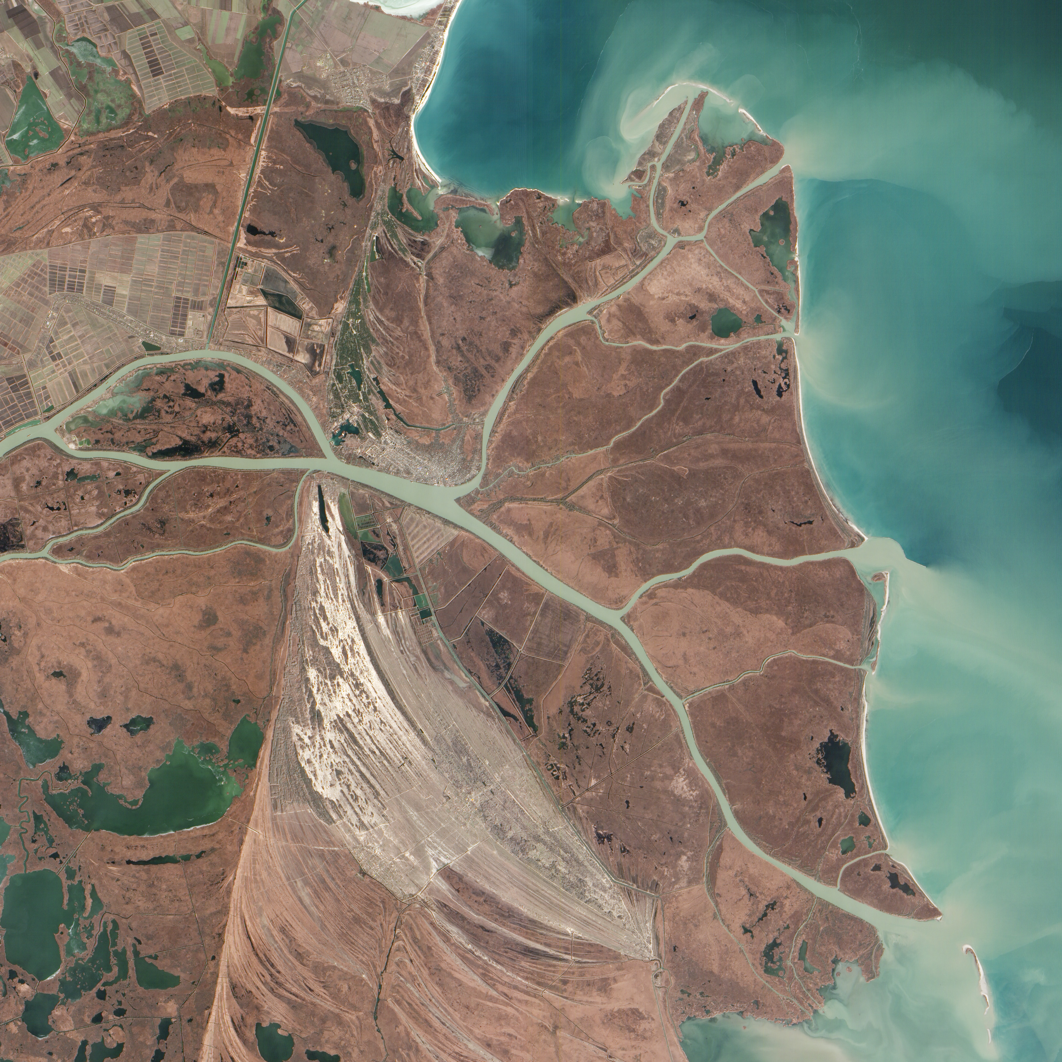 Original image caption (excerpt): “The image above was acquired on February 5, 2013, by the Advanced Land Imager (ALI) on NASA’s Earth Observing-1 (EO-1) satellite. The Danube Delta has a number of lobes formed over the past several thousand years, and this image is focused largely on the northernmost Chilia (or Kilia) lobe. It is the youngest section of the delta—somewhere between 300 to 400 years old—and lies mostly within Ukraine. Much of the land in the image above is officially considered part of the Danube Biosphere Reserve. (To see more about how the delta formed, click here.) Near the center of the image, the small city of Vylkove is known as the “Ukranian Venice,” due to its canals. To the lower left, the older Sulina lobe of the delta stretches to the south and further inland into Romania. White and brown curved lines reveal beach ridges and former shorelines, with the whiter ridges composed almost entirely of pure quartz sand in high dunes. To the east of the ridges, most of the landscape is flat marshland that is mostly brown in the barren days of winter.”